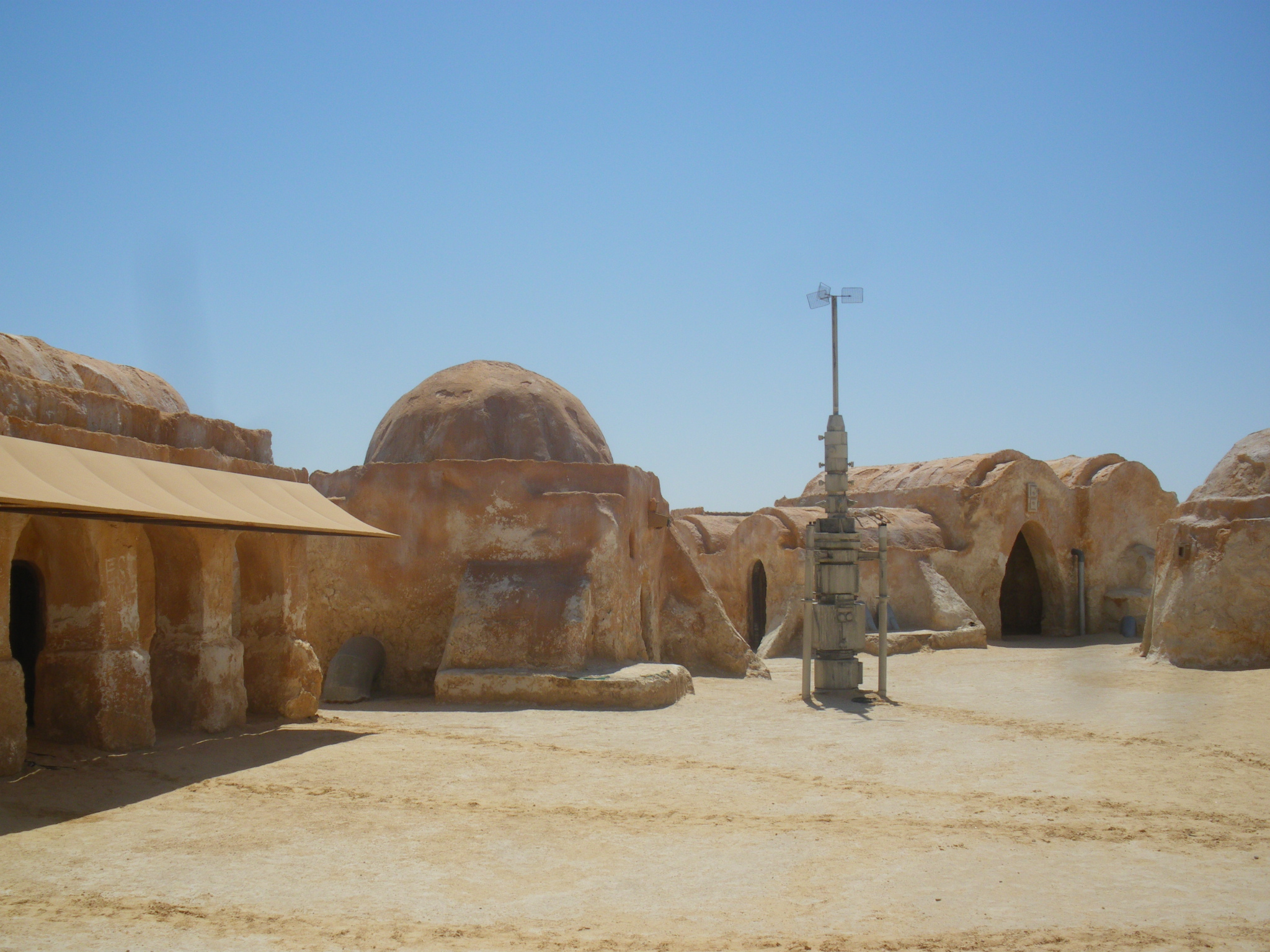 Star Wars Episode I: The Phantom Menace village nearby Nafta, Tunisia in Tunisia